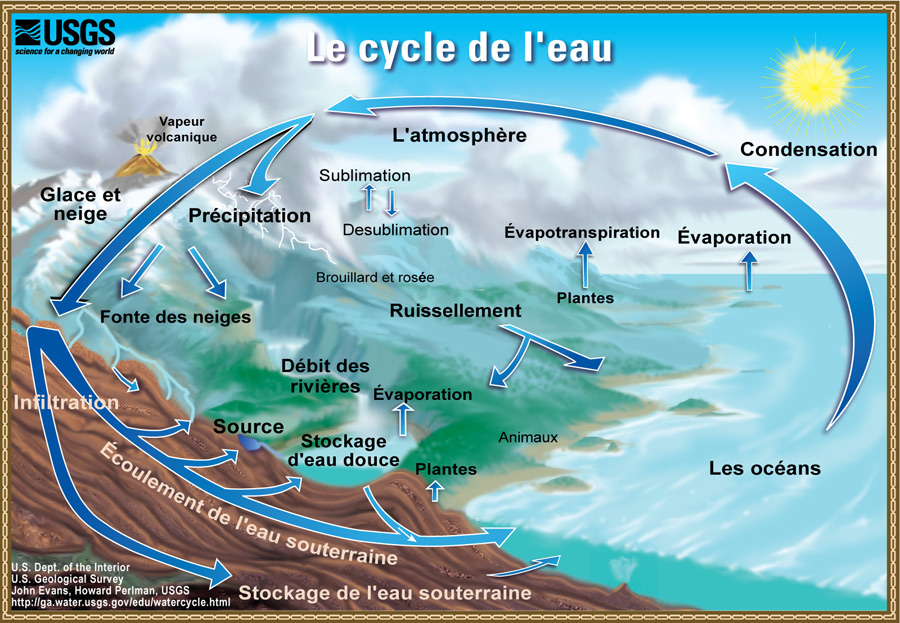 Water-Cycle Diagram (French)